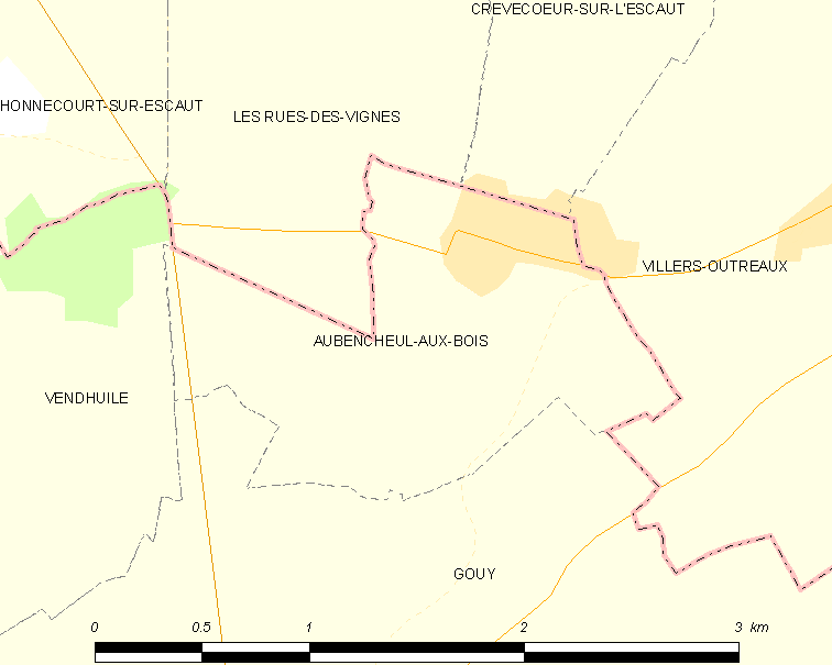 Map of French commune: Aubencheul-aux-Bois Map commune FR insee code 02030.png